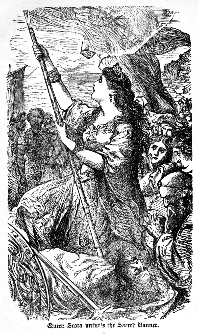 Illustration by John Fergus O'Hea, engraved by C. M. Grey